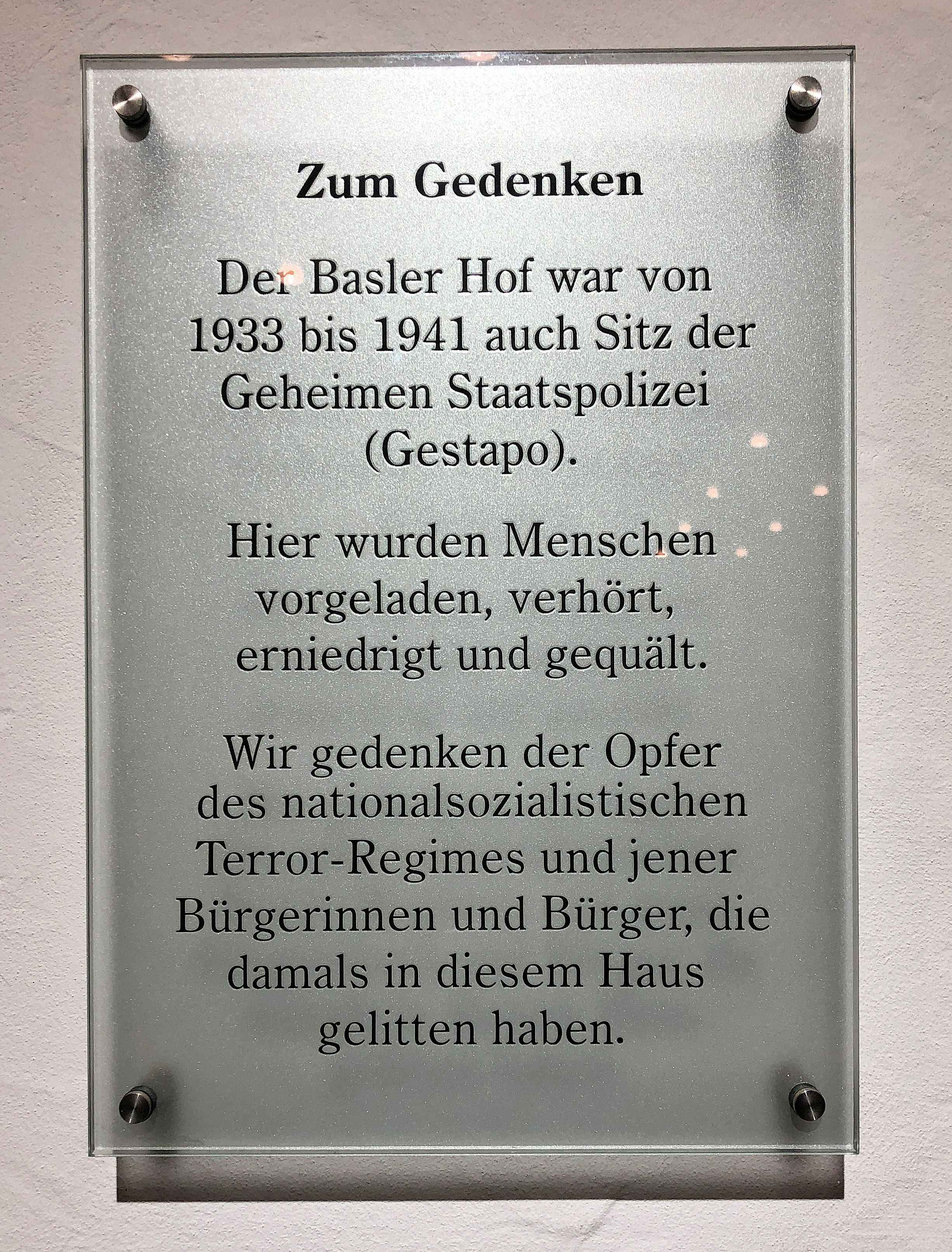 Commemorative plaque at the Basler Hof in Freiburg im Breisgau